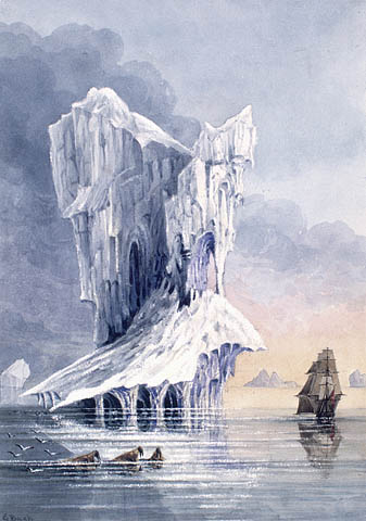 Title / Titre : An iceberg, the HMS Terror and some walrus near the entrance of Hudson Strait / Un iceberg, le HMS Terror et quelques morses près de l'entrée du détroit d'Hudson Creator(s) / Créateur(s) : George Back Date(s) : July 1836 / juillet 1836 Reference No. / Numéro de référence : ITEM 2833849, 2897646 Location / Lieu : Hudson Strait, Nunavut, Canada / Détroit d'Hudson, Nunavut, Canada Credit / Mention de source : George Back. George Back Fonds. Library and Archives Canada, C-110045k / George Back. Fonds George Back. Bibliothèque et Archives Canada, C-110045k This image is available from Library and Archives Canada under the reproduction reference number C-110045k This tag does not indicate the copyright status of the attached work. A normal copyright tag is still required. See Commons:Licensing for more information. Library and Archives Canada does not allow free use of its copyrighted works. See Category:Images from Library and Archives Canada.